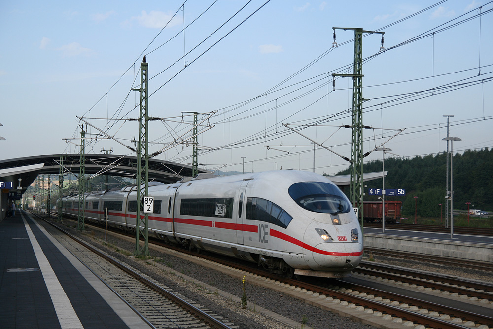 ICE 3 at Montabaur